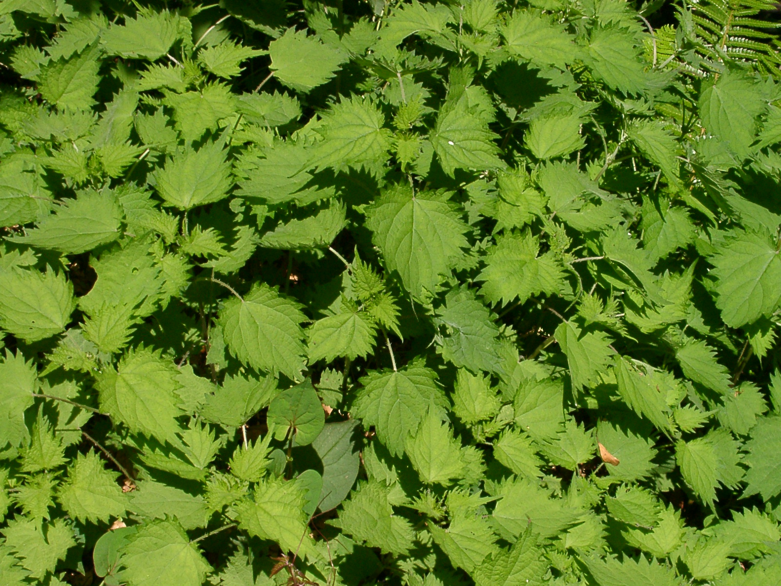 Urtica thunbergiana, Manazuru-machi, Japan.